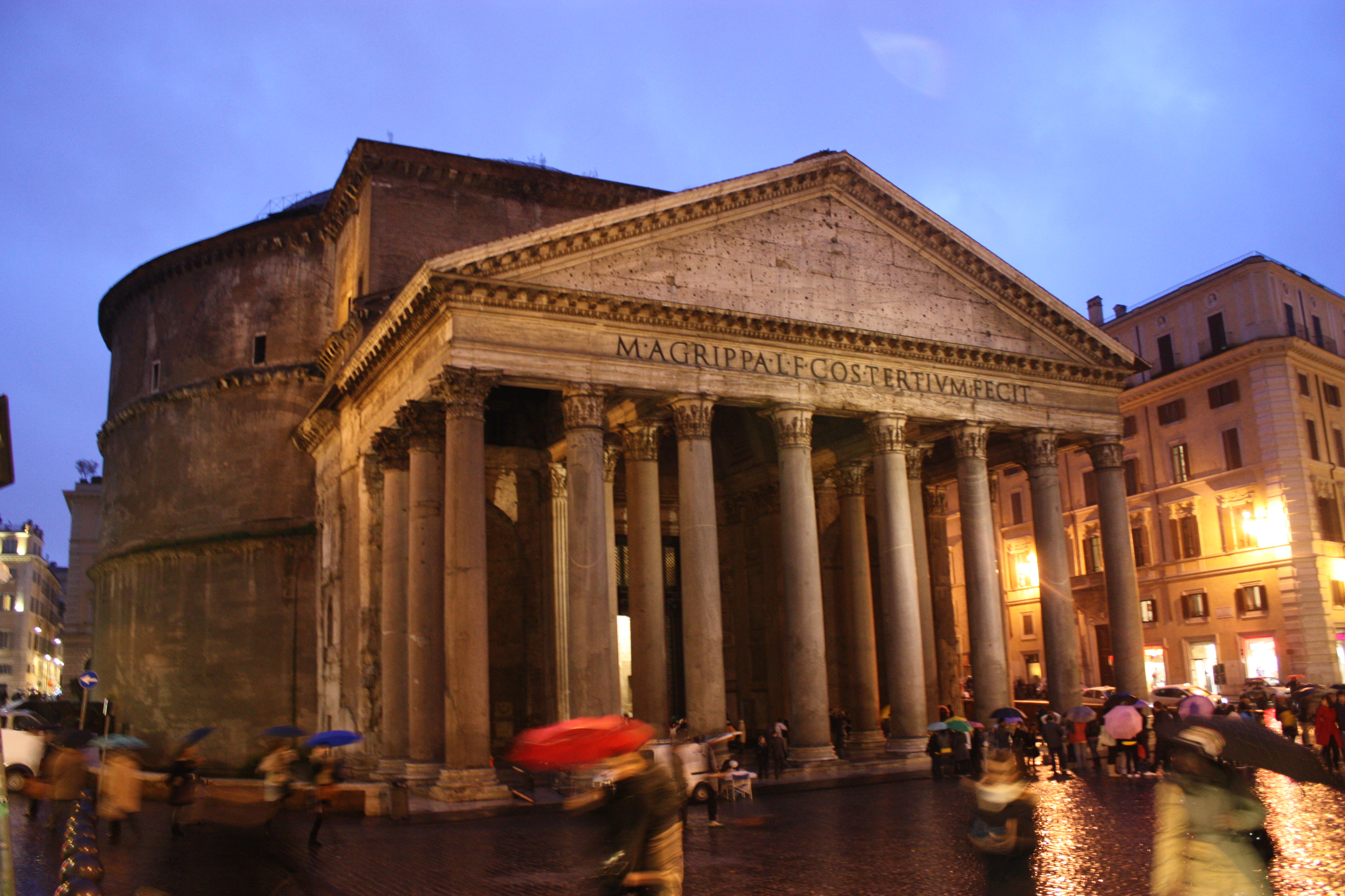 Front of Pantheon in Rome, january 2010.